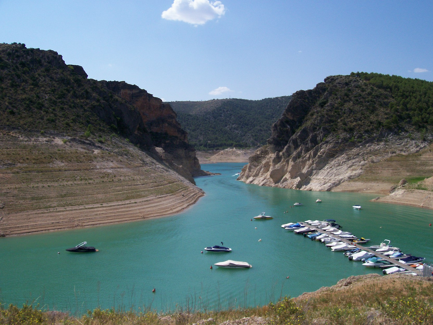 Boca del Infierno is an awesome gorge located in the Embalse de Entrepeñas (Reservoir damming), in Sacedón, Guadalajara (Spain)